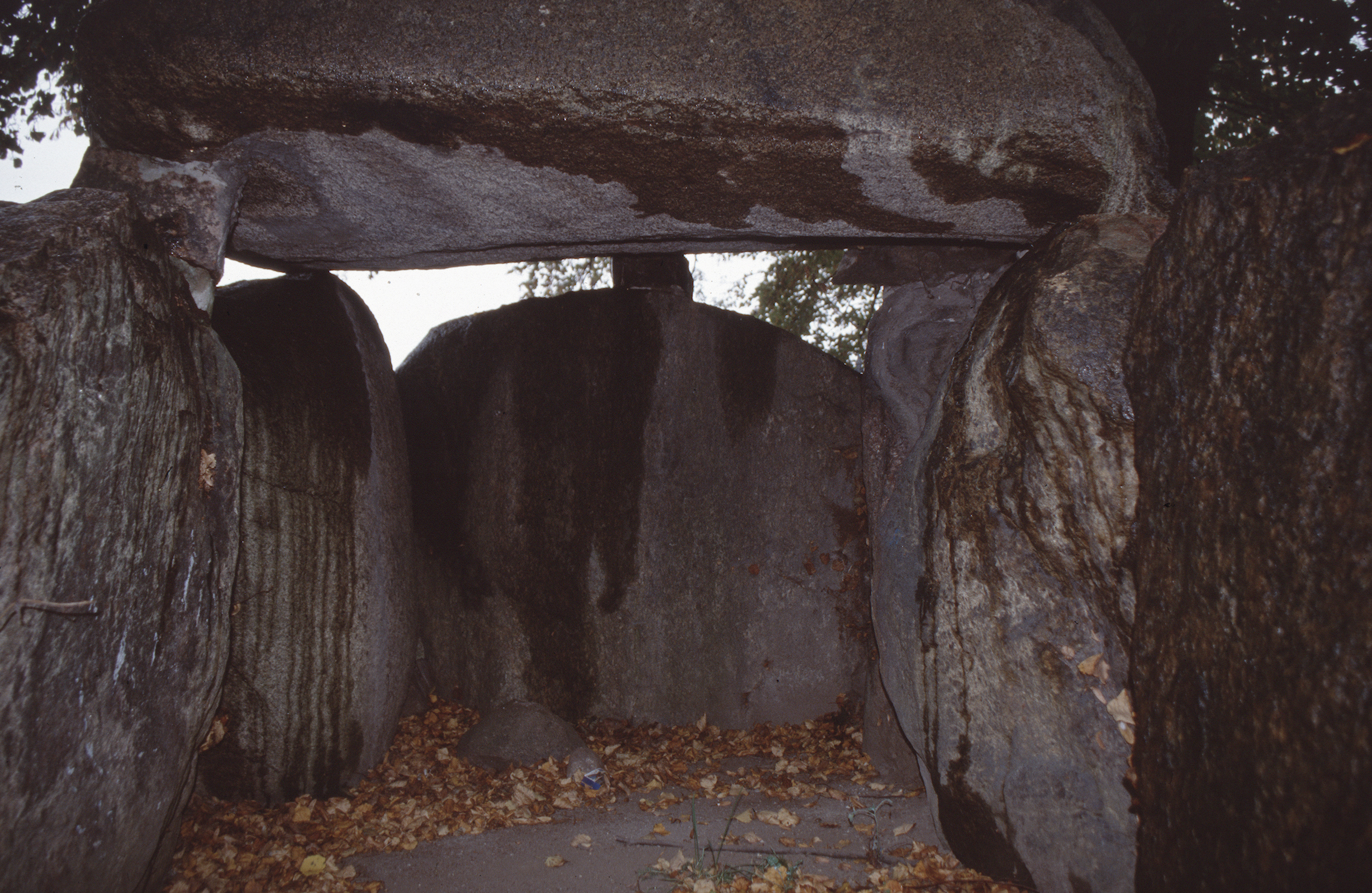 Megalithic grave "Heidenberg" in Schortewitz